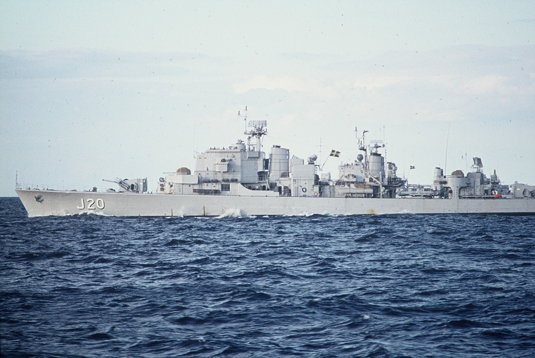 Picture of the Swedish destroyer HMS Östgötland (J20).